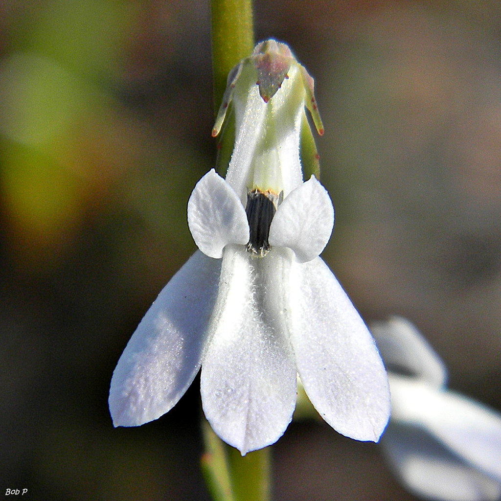 White lobelia blooming along the Florida Trail at Jonathan Dickinson State Park. The area was pine/palmetto flatwoods that had burned earlier in the year. The blossoms are pretty small.